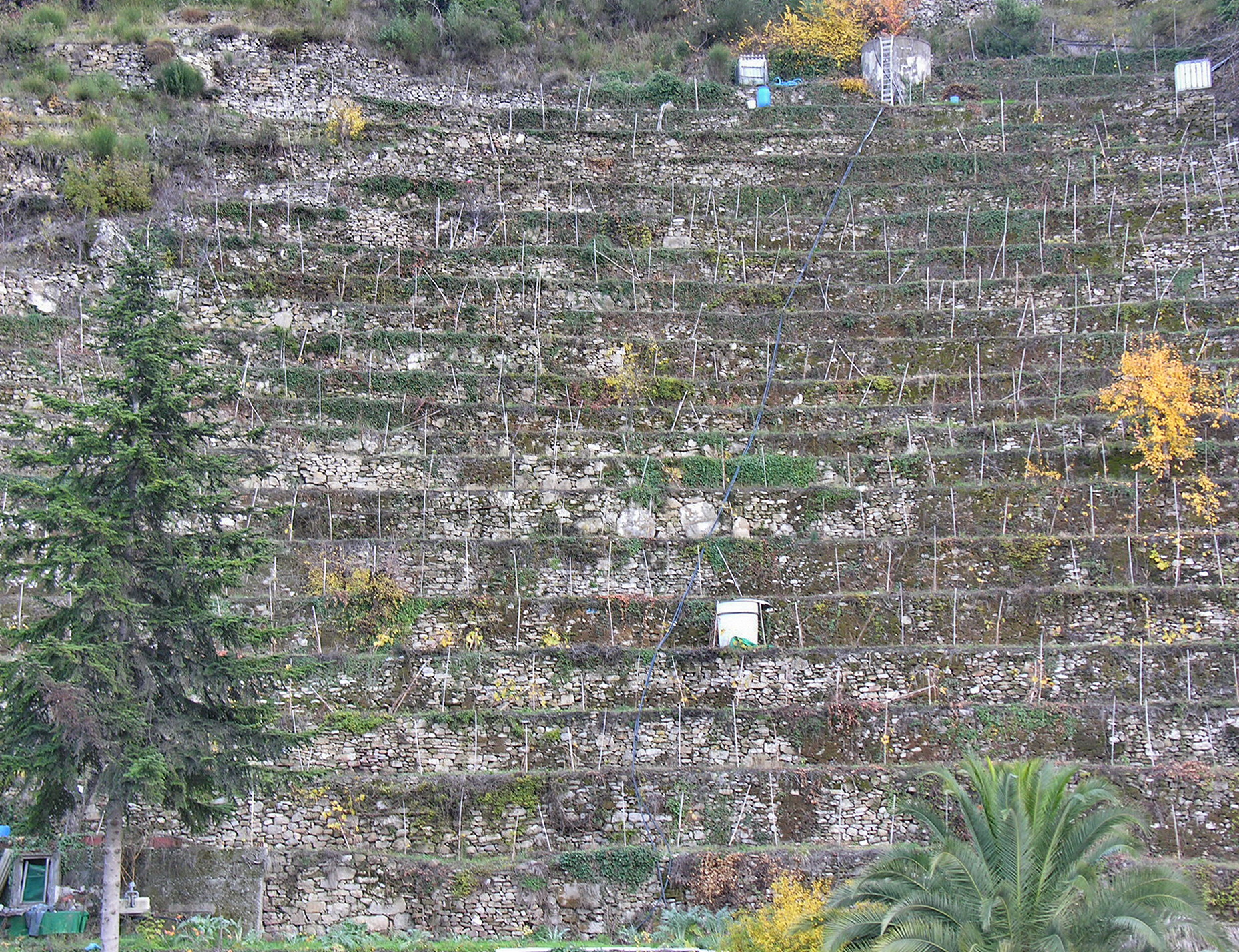 Dry stone walls in Caltelvittorio, Imperia, Italy